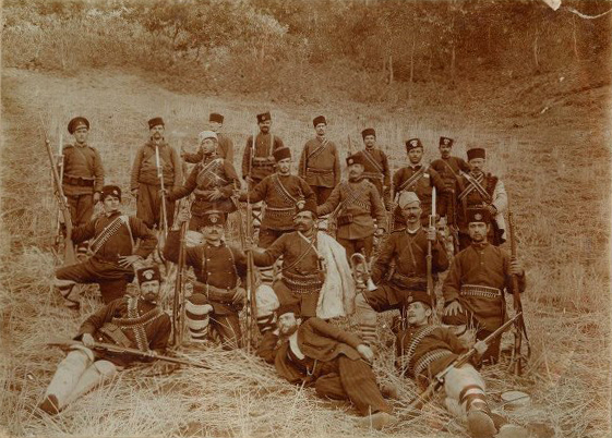 SMAC cheta of Hristo Sarakinov